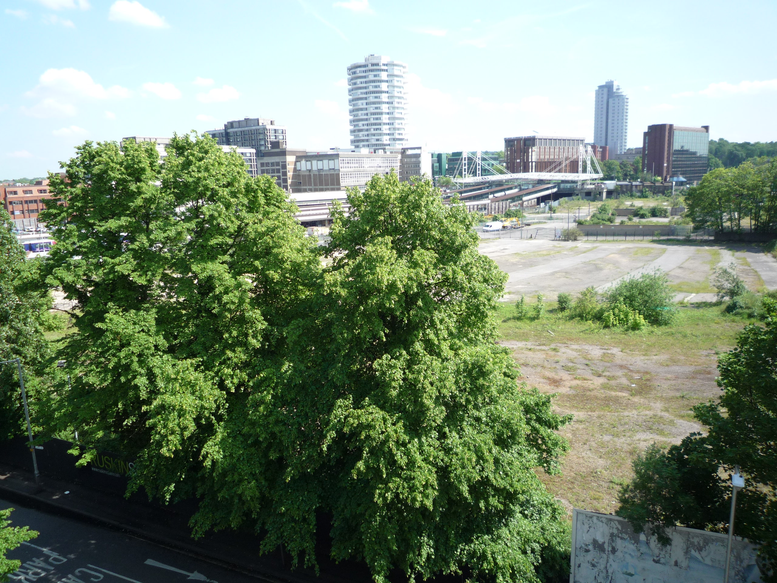 The site of the planned Ruskin Square development in Croydon, Greater London. Seen from the top of the Dingwall Road multi-storey car park, from grid reference TQ 326 659 looking southeast. The word Ruskin can been seen at bottom left on the hoarding facing Lansdowne Road. The tallest two buildings in the background are No.1 Croydon, left and Altitude 25. Between them is the suspended roof of East Croydon railway station and the ramps leading down to the platforms.